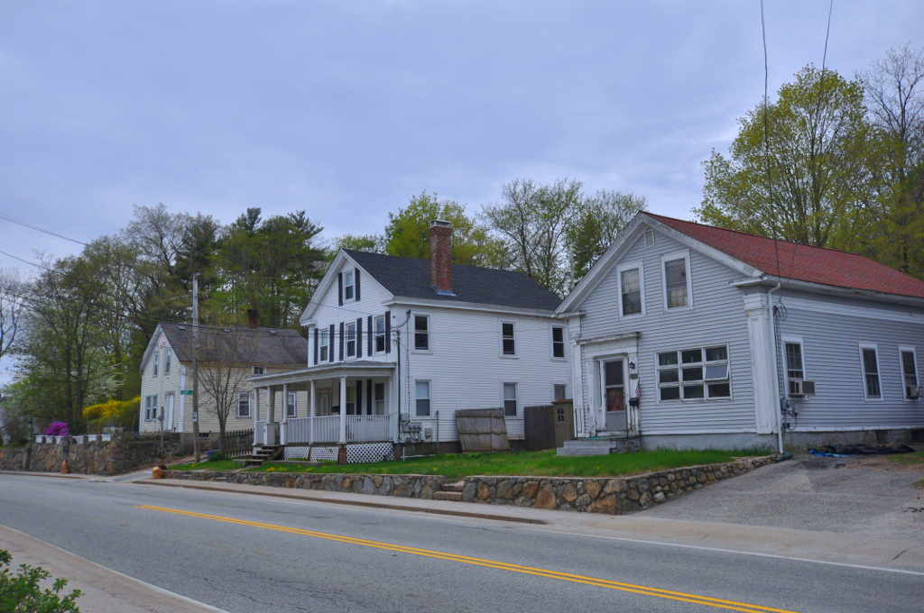 South Main Street Historic District, Coventry, Rhode Island.